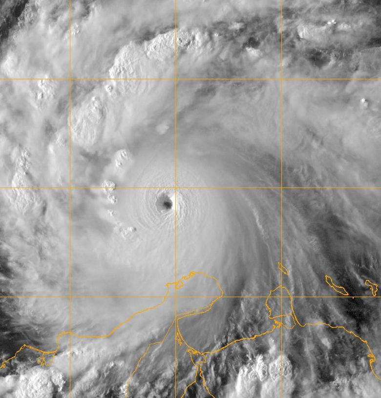 Hurricane Felix on September 2 at approximately 2115 UTC. This image was produced from data from GOES-12 from the NRL